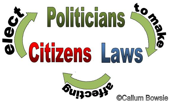 This describes the relationship between citizens, politicians and laws.